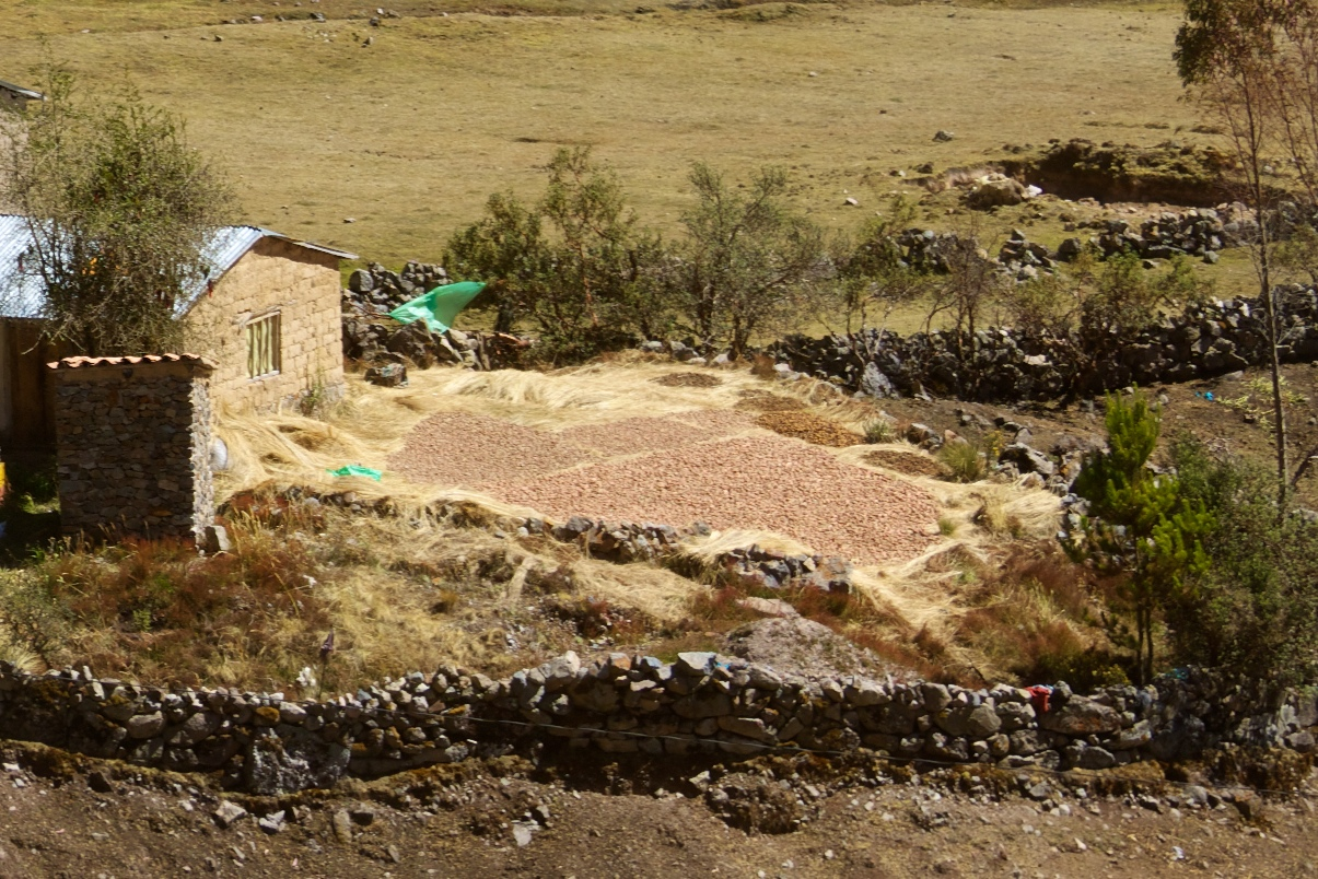 One of the alpine stables through the lean winter months, a type of potato can be planted at high altitude above 4000m in the winter. Left out, the potatoes freeze-dry and are eaten during the following few lean months.